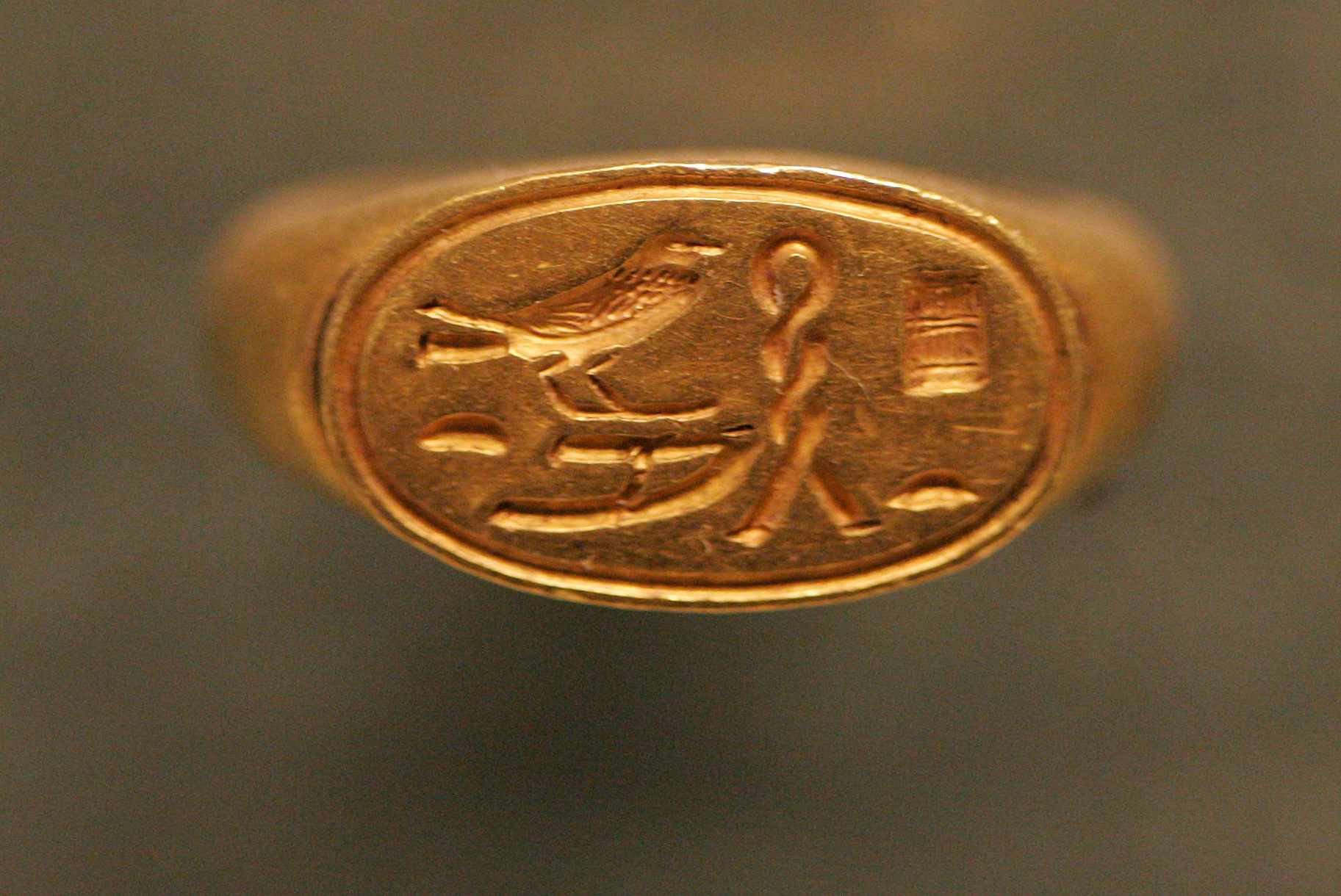 Artist Unknown artistDescription Seal ring featuring the inscription "Ptah Great with love"Collection Louvre Museum (Inventory)Native nameMusée du LouvreParent institutionÉtablissement public du musée du Louvre LocationParisCoordinates48° 51′ 37.42″ N, 2° 20′ 15.36″ E Established1793 Web page control : Q19675 VIAF: 257711507 ISNI: 0000 0001 2260 177X ULAN: 500125189 LCCN: n80020283 NLA: 35912436 WorldCat institution QS:P195,Q19675Current location Sully Rez-de-chaussée La parure Salle 9Accession number E3603References Louvre.frSource/Photographer Rama Seal ring featuring the inscription "Ptah Great with love"